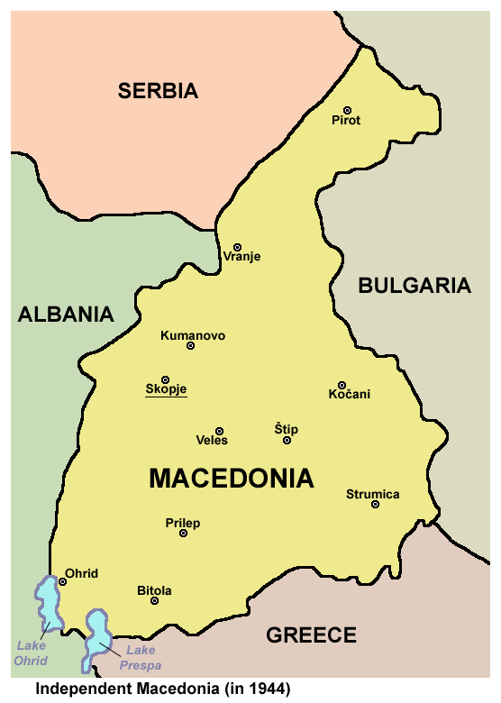 Independent Macedonia (in 1944).